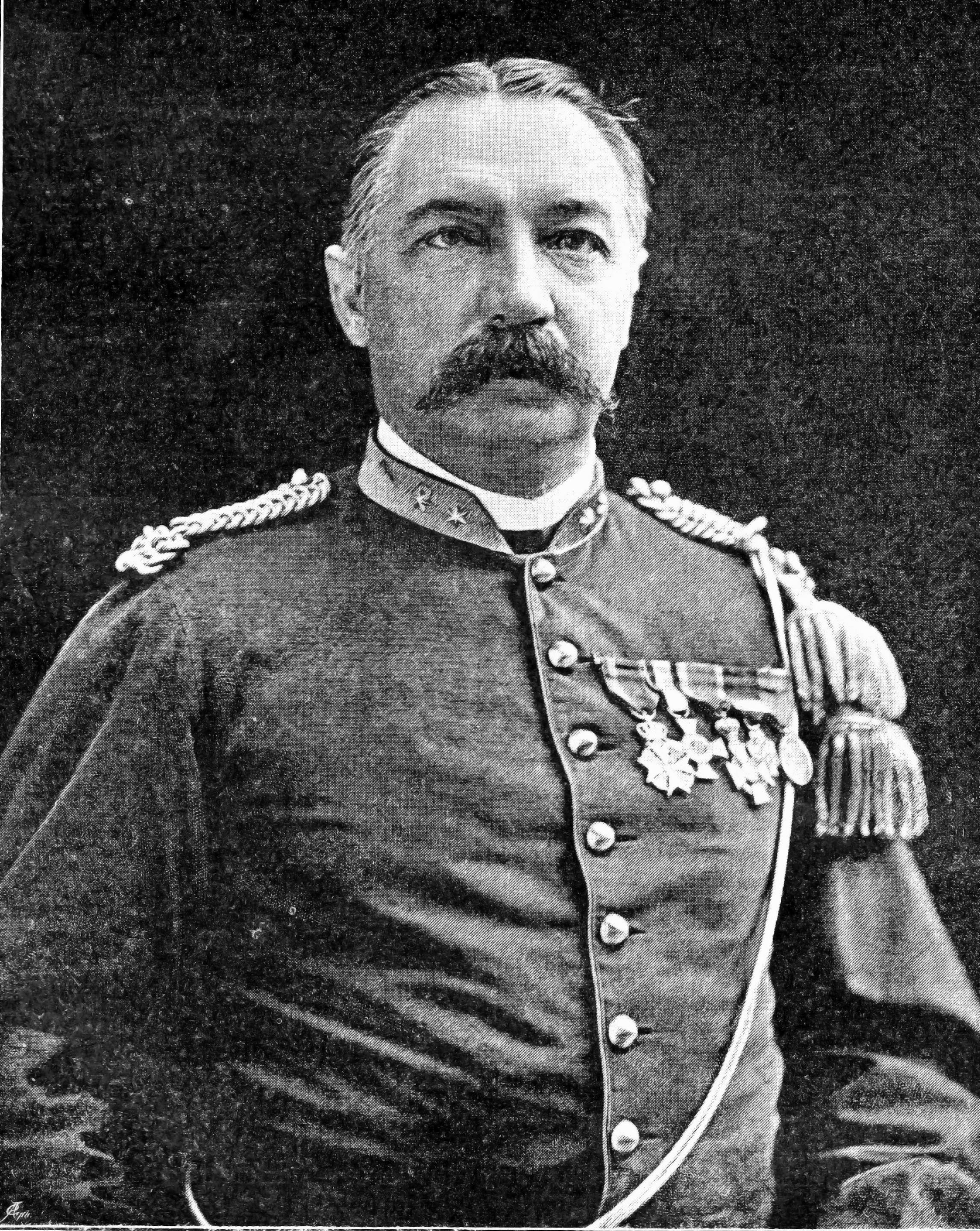 Gunther von Bultzingslowen